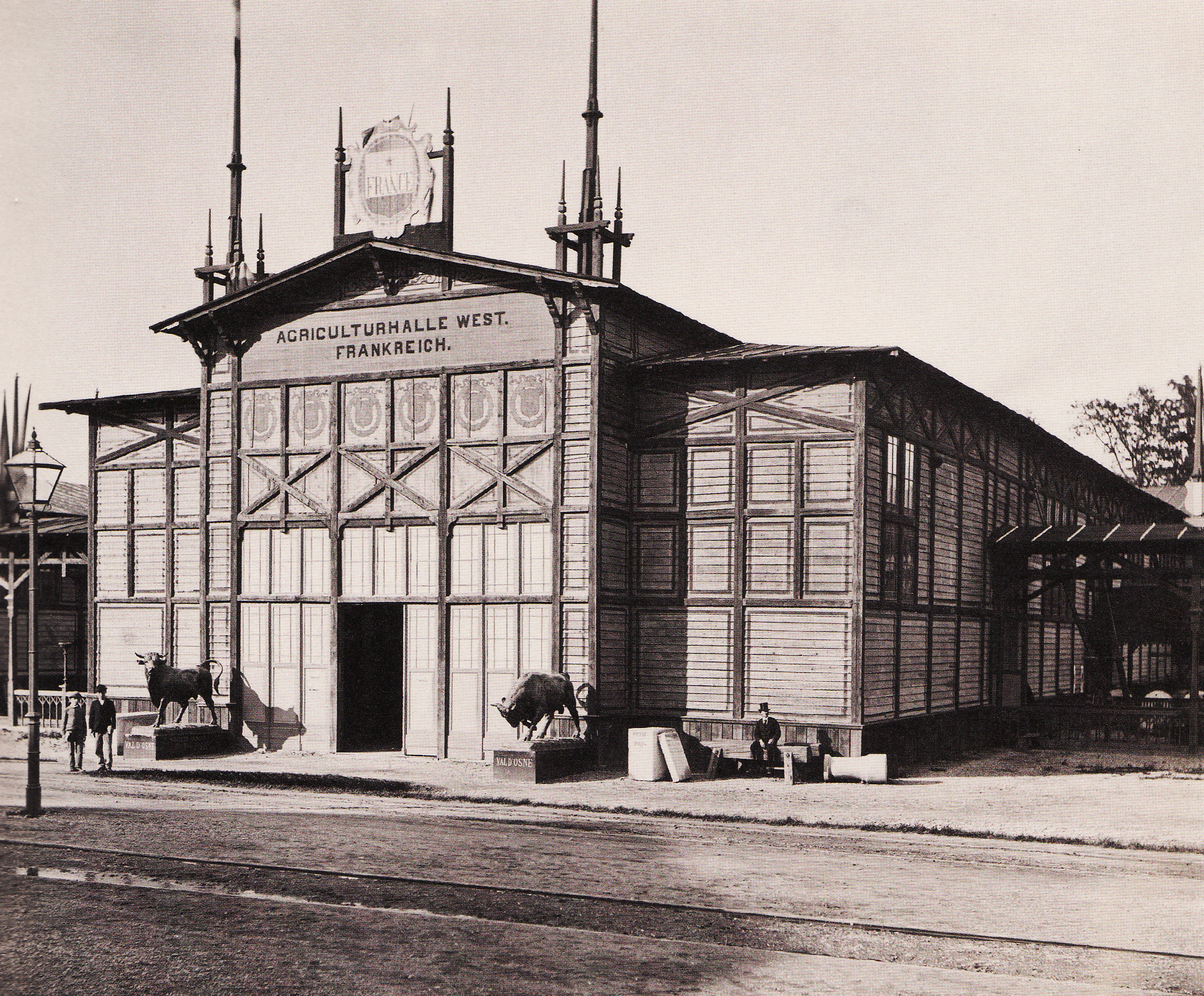 Agriculturhalle West France Expo 1873